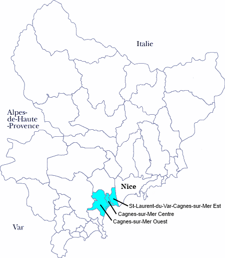 Map of Alpes Maritimes' 6th constituency, France (2010 redistricting, into force from 2012 French legislative elections).